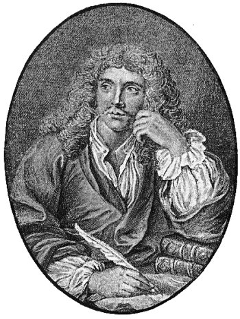 Print based on a portrait of the French playwright Molière painted by Charles-Antoine Coypel